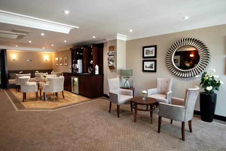 Kingsmere Retirement Home Putney SW19 6AB